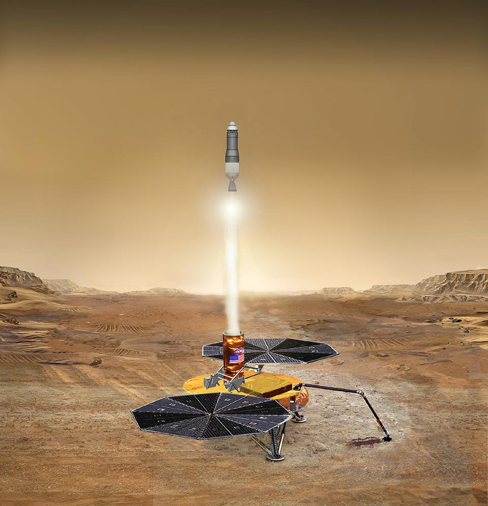 Sample return concept - Mission Summary Acronym:MSR Type:Lander/Rover Status:Proposed Launch Date:To be determined Target:Mars Destination:Mars Mars Sample Return is a proposed mission to return samples from the surface of Mars to Earth. The mission would use robotic systems and a Mars ascent rocket to collect and send samples of Martian rocks, soils and atmosphere to Earth for detailed chemical and physical analysis.Mission Summary Mars Sample Return is a proposed mission to return samples from the surface of Mars to Earth. The mission would use robotic systems and a Mars ascent rocket to collect and send samples of Martian rocks, soils and atmosphere to Earth for detailed chemical and physical analysis.